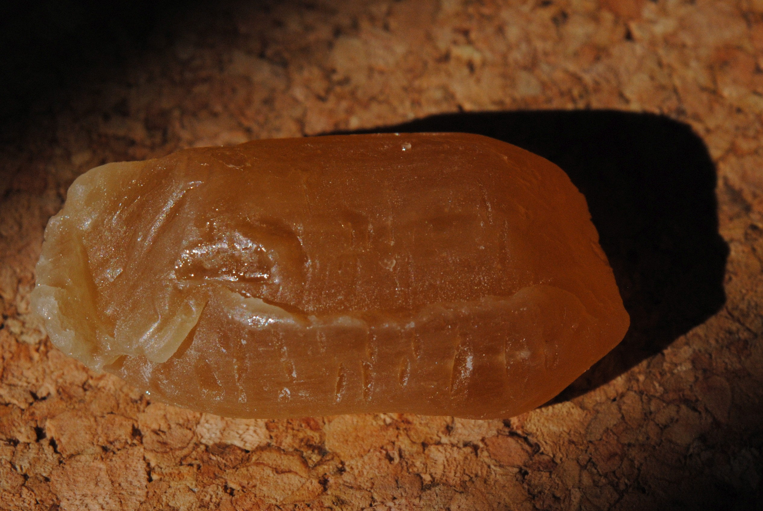 A hard-boiled 'Troach' sweet, purchased at the Black Country Living Museum in the English Midlands where such sweets are traditional. It has been removed from its cellophane wrapper.